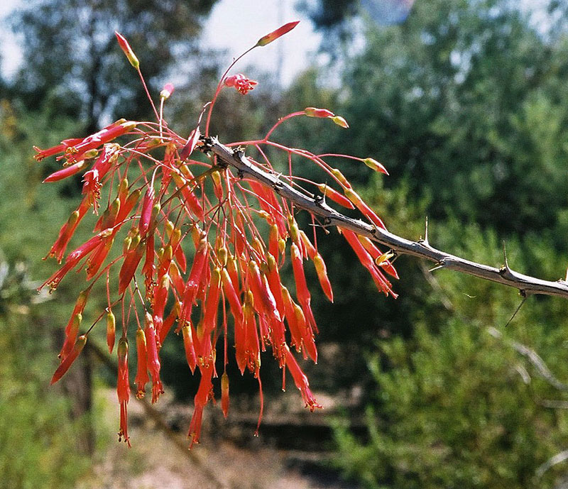 Native to northwestern Mexico. Here at Desert Botanical Gardens, Phoenix.